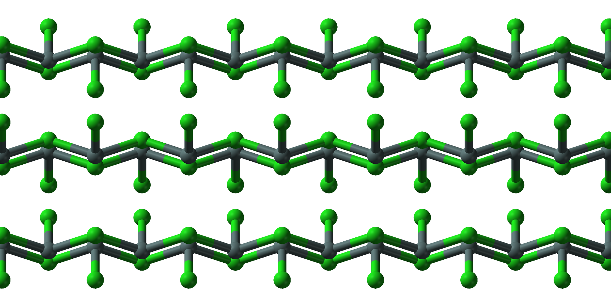 Ball-and-stick model of part of the crystal structure of tin(II) chloride, SnCl2. Crystal structure by X-ray diffraction from J. Phys. Chem. Solids (1996) 57, 7-16. Model constructed in CrystalMaker 8.1. Image generated in Accelrys DS Visualizer.